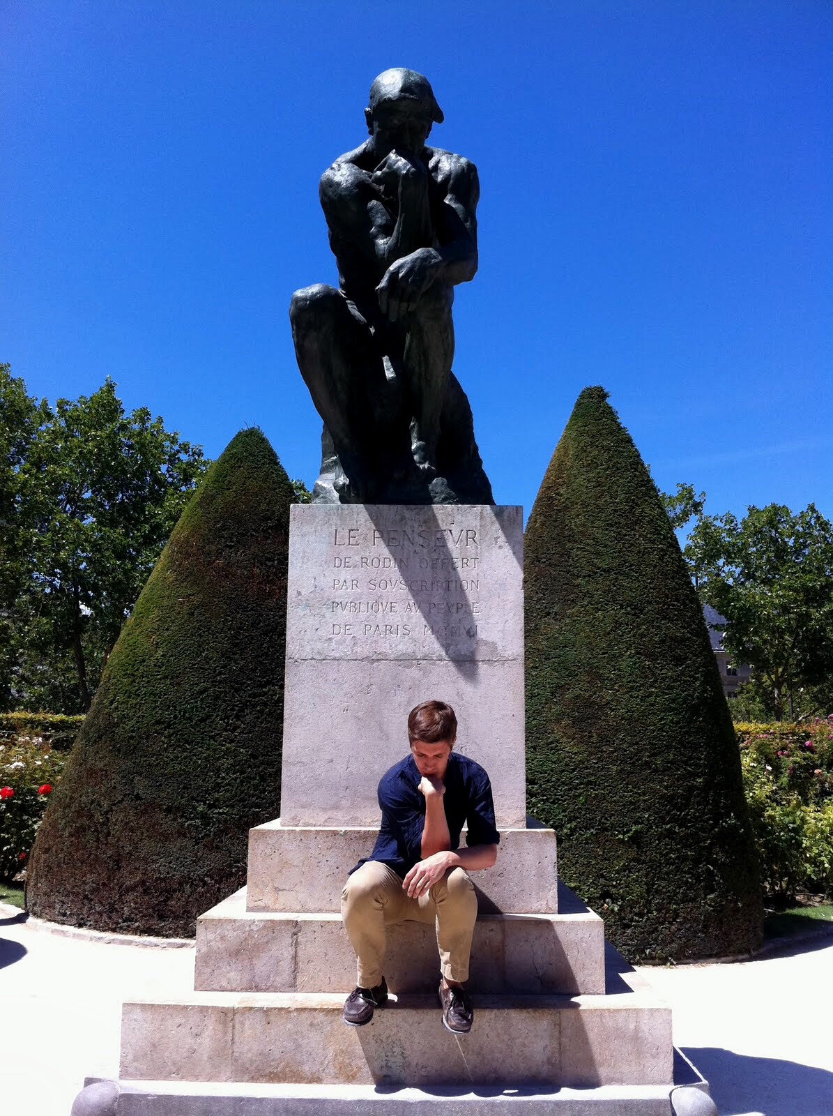 Le Penseur statue with man in front who is modeling the statue's pose